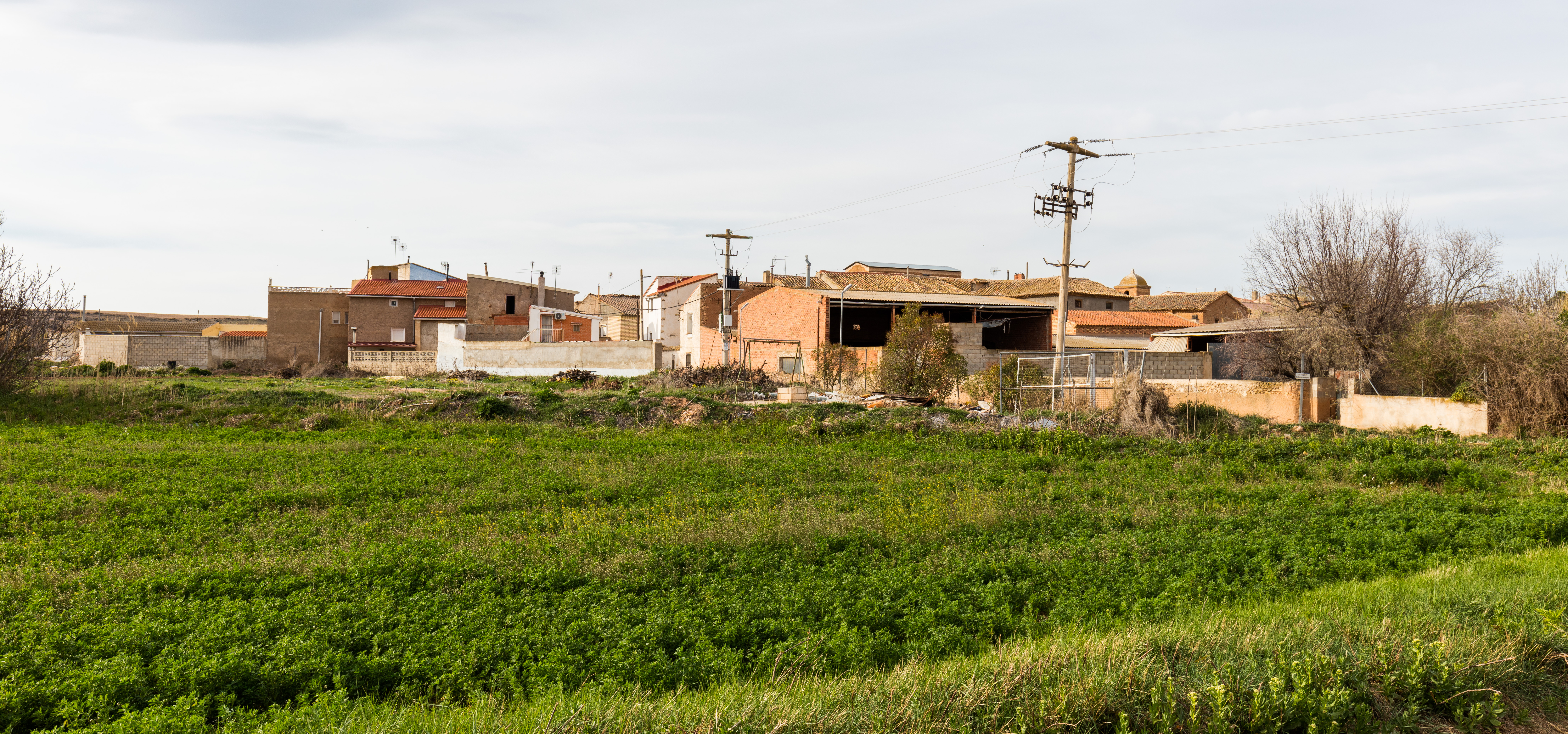 Pleitas, Zaragoza, Spain